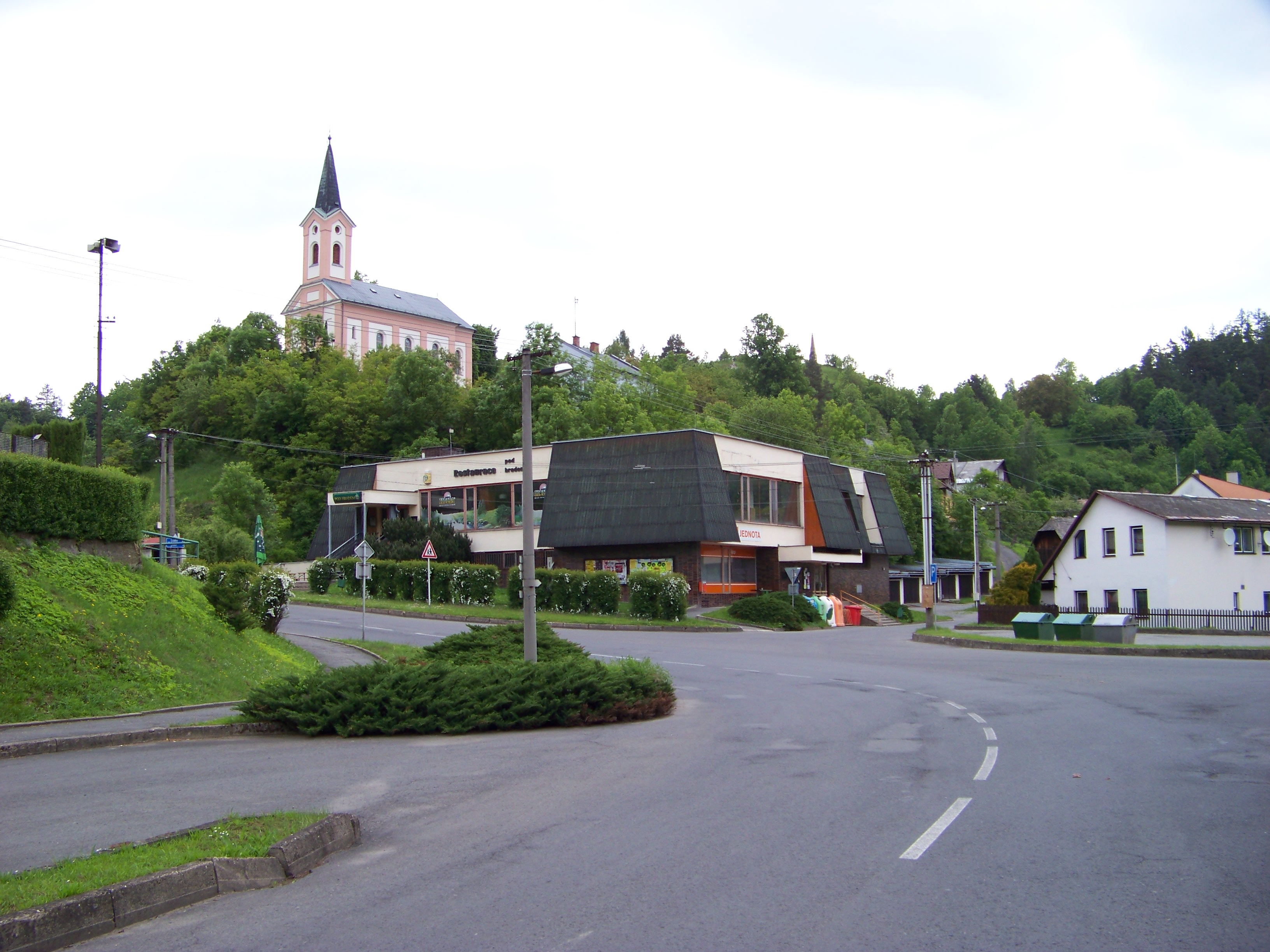 Hoštejn, Šumperk District, Olomouc Region. Coop shop and Saint Anne Church.